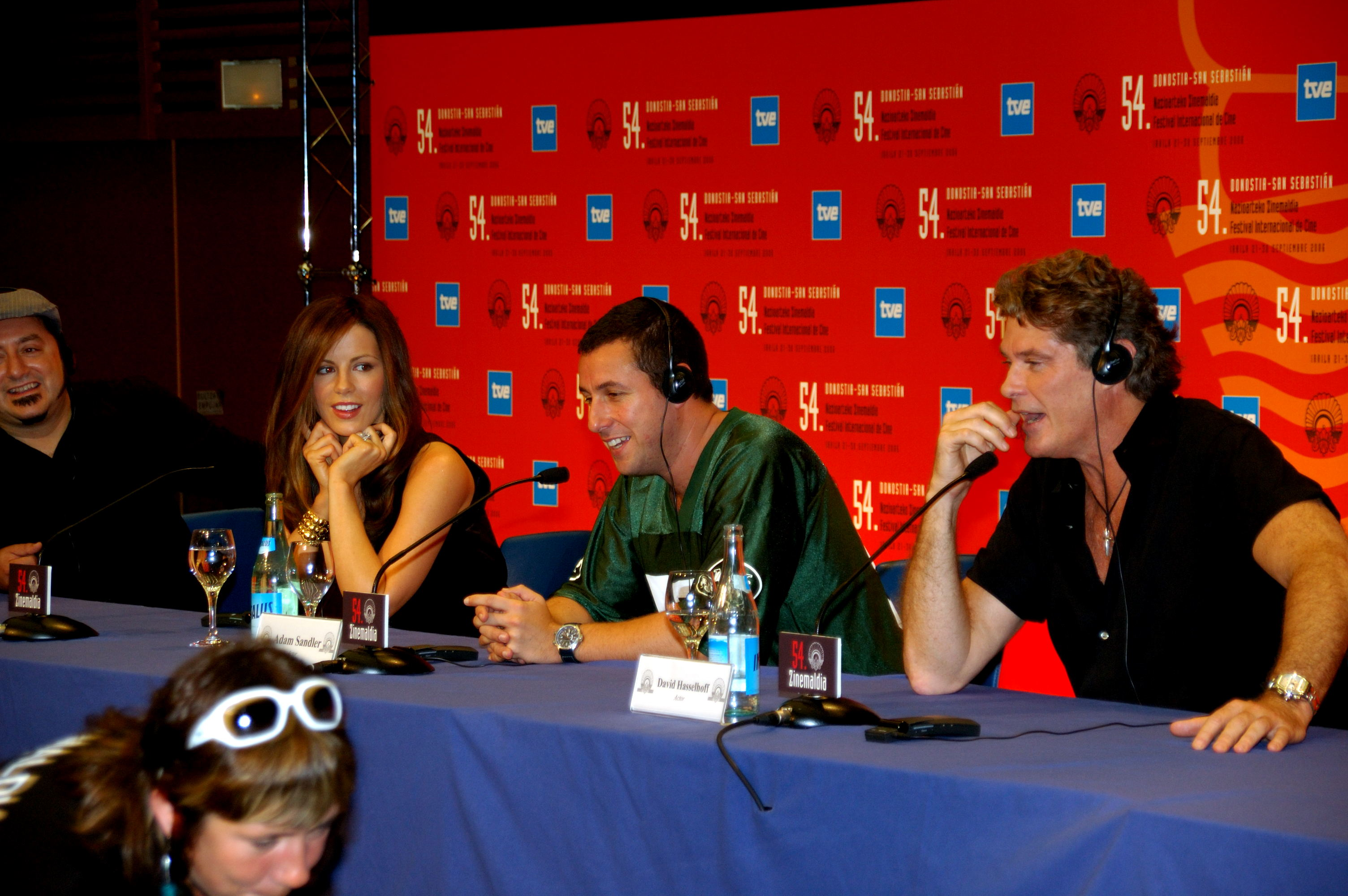 Kate Beckinsale, Adam Sandler and David Hasselhoff in San Sebastian International Film Festival.